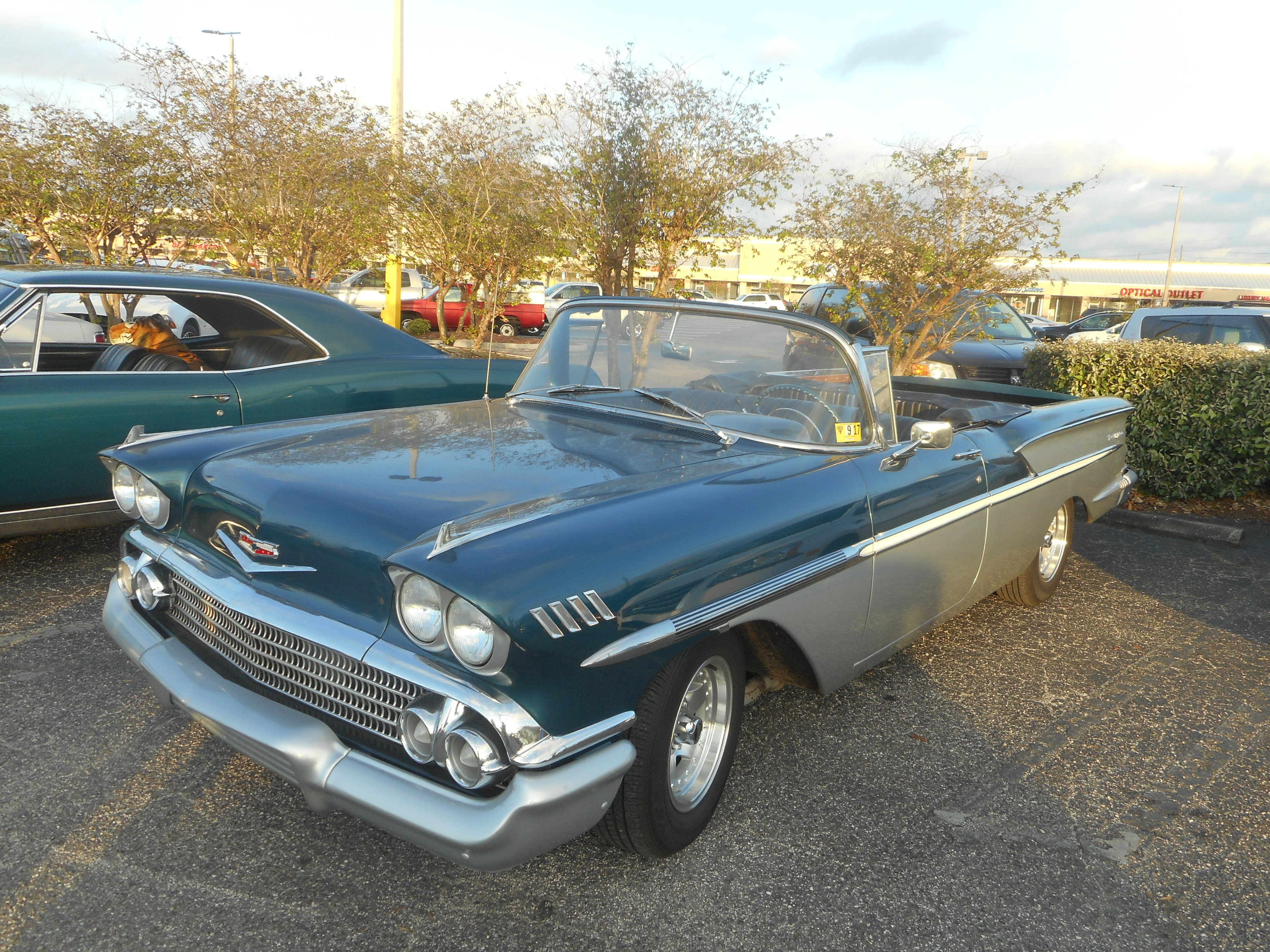 What would otherwise be viewed as an ordinary preserved and restored 1958 Chevrolet Bel Air convertible is in reality a customized convertible pickup truck, pre-dating the El Camino by one year. Taken at the Spring Hill Car Show at the Hardee's fast food restaurant on US 19 just north of Florida State Road 50 in Weeki Wachee, Florida.